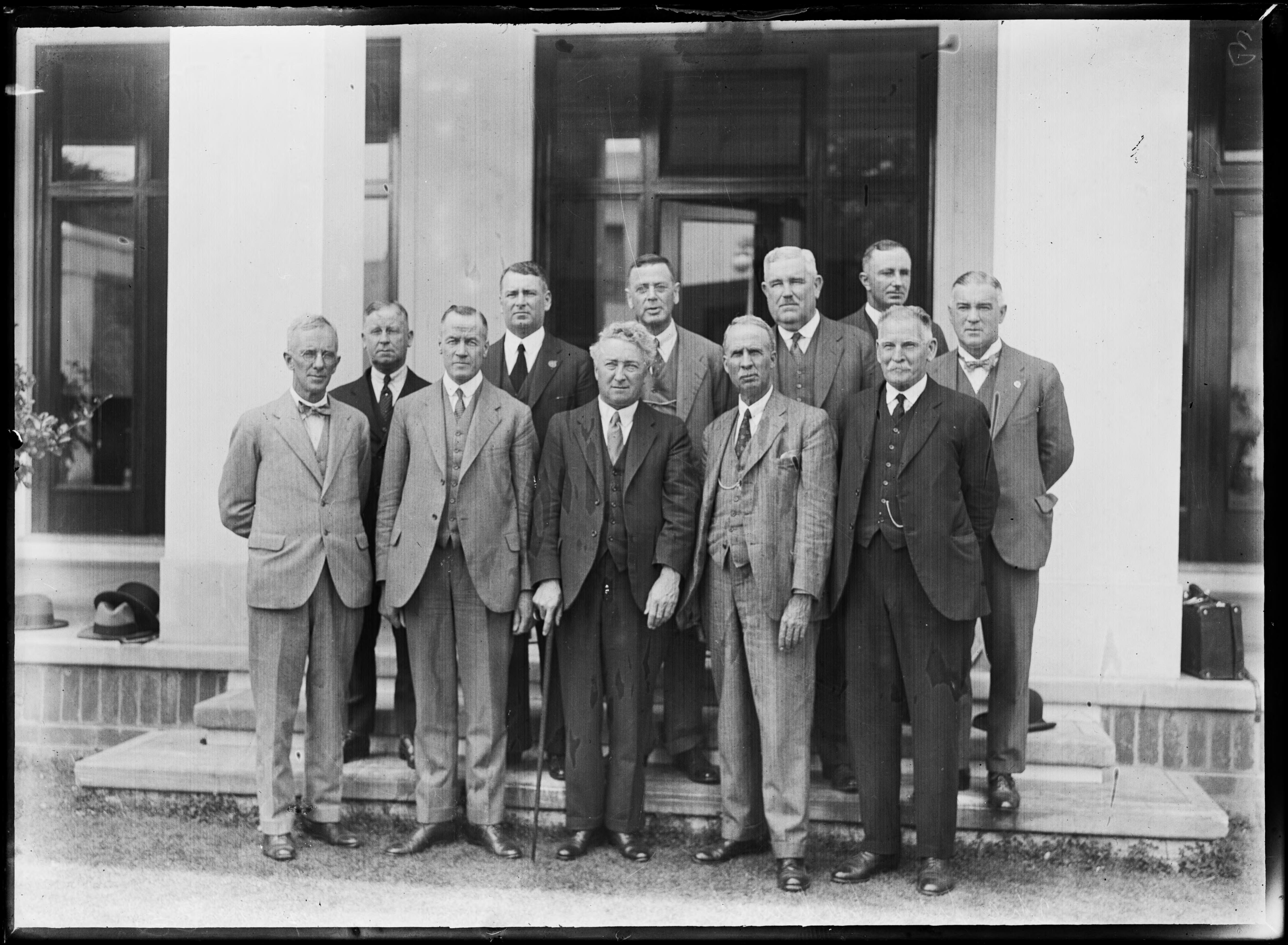 Members of the First Lyons Ministry. Back row (L-R): Archdale Parkhill, Josiah Francis, John Perkins, Alexander McLachlan, Charles Hawker, Charles Marr. Front row (L-R): Henry Gullett, John Latham, Joseph Lyons, George Pearce, James Fenton.